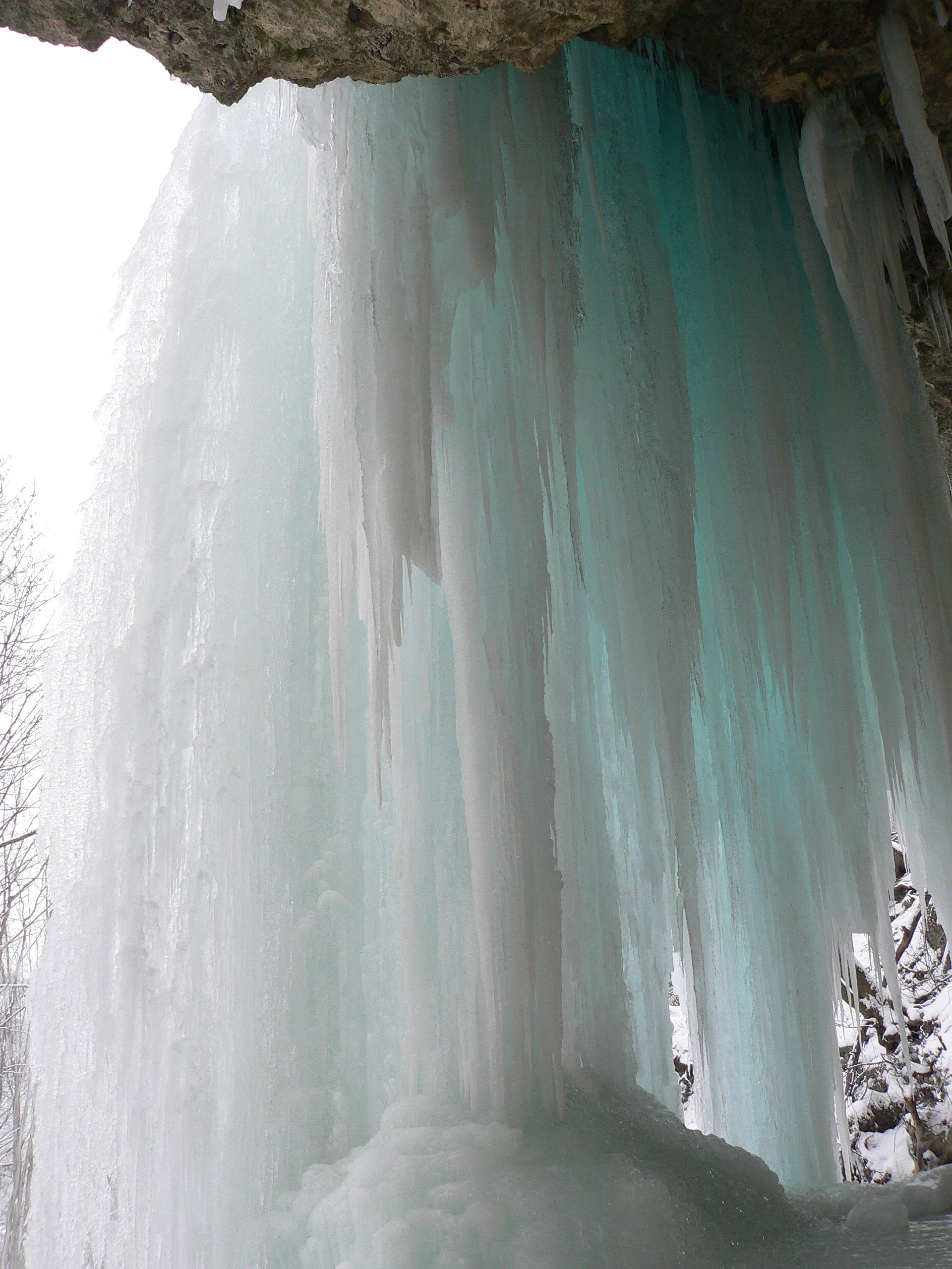 Behind the highest waterfall in Hungary, Miskolc-Lillafüred when iced in wintertime, 2006. 02. 09 Author: Rodrigo(Miskolc, 2006) from Wikimedia Commons